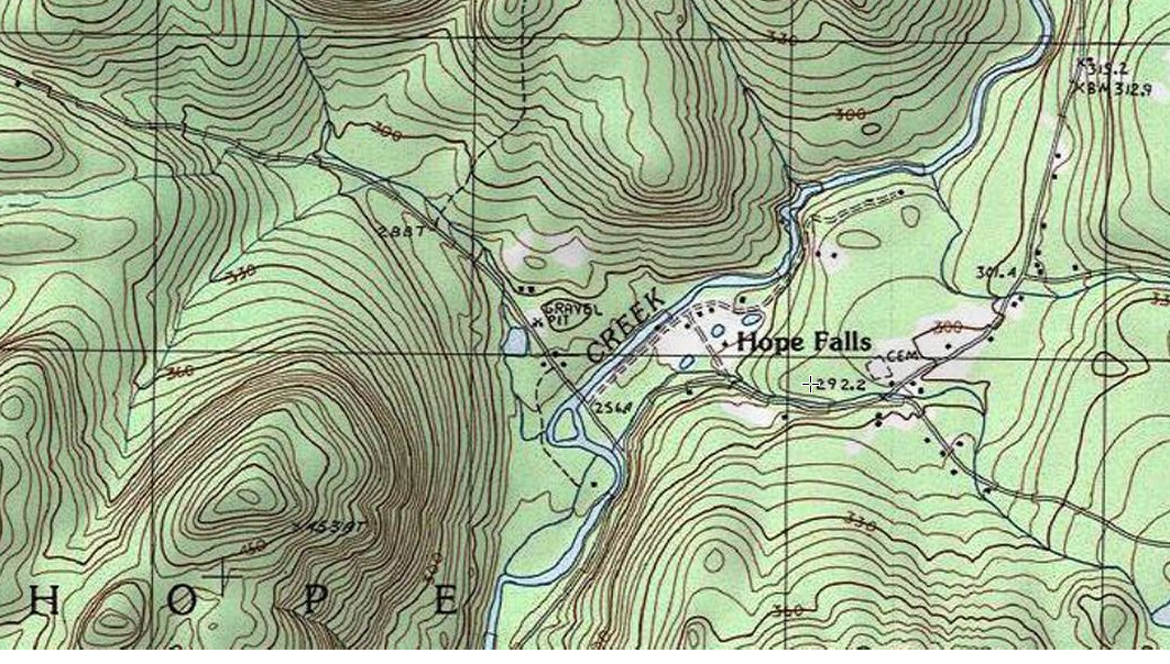 Detail from USGS topographical map Hope Falls quadrangle